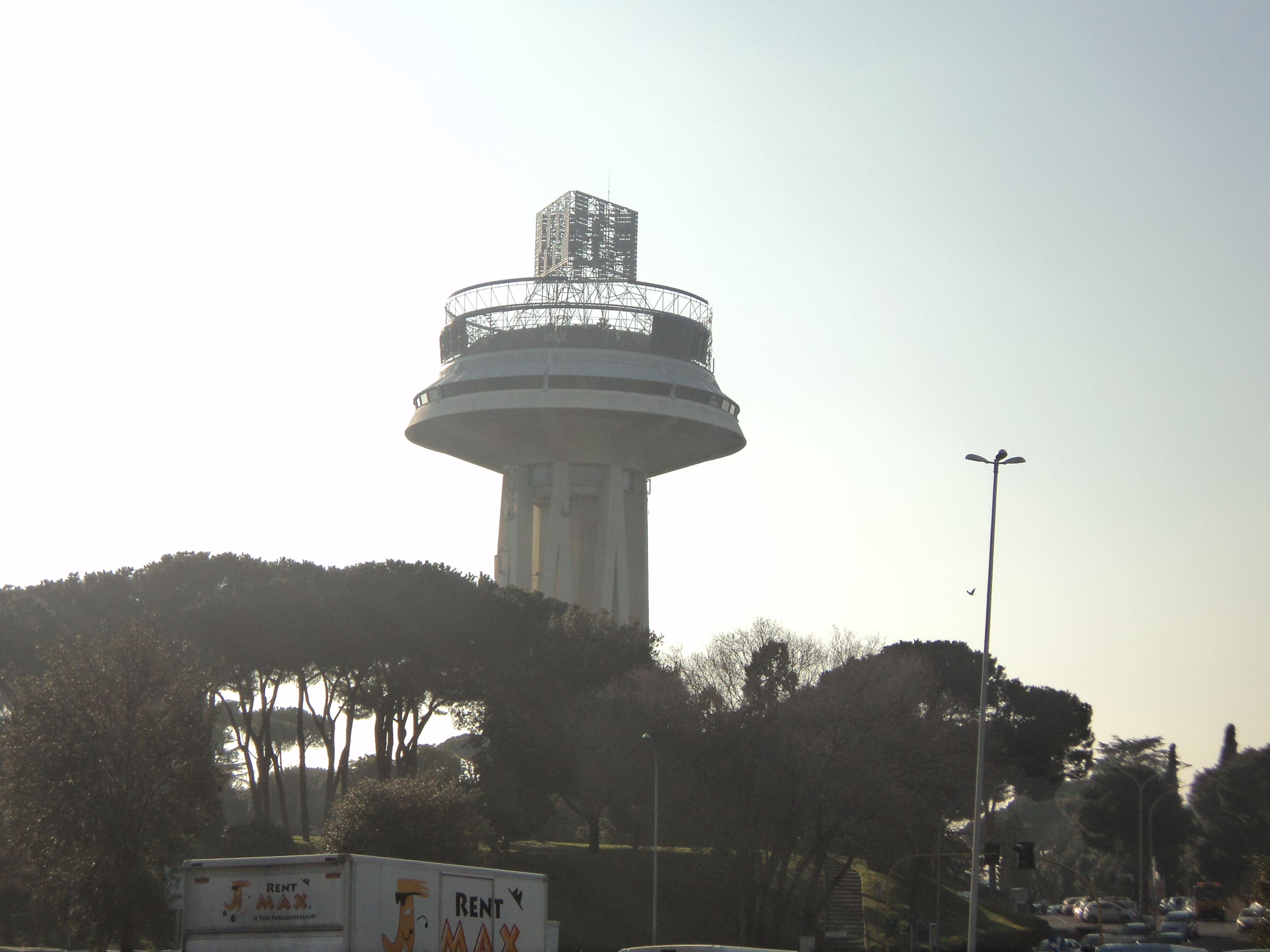 The "Mushroom", inside a water tank and a rooftop restaurant. For more pictures